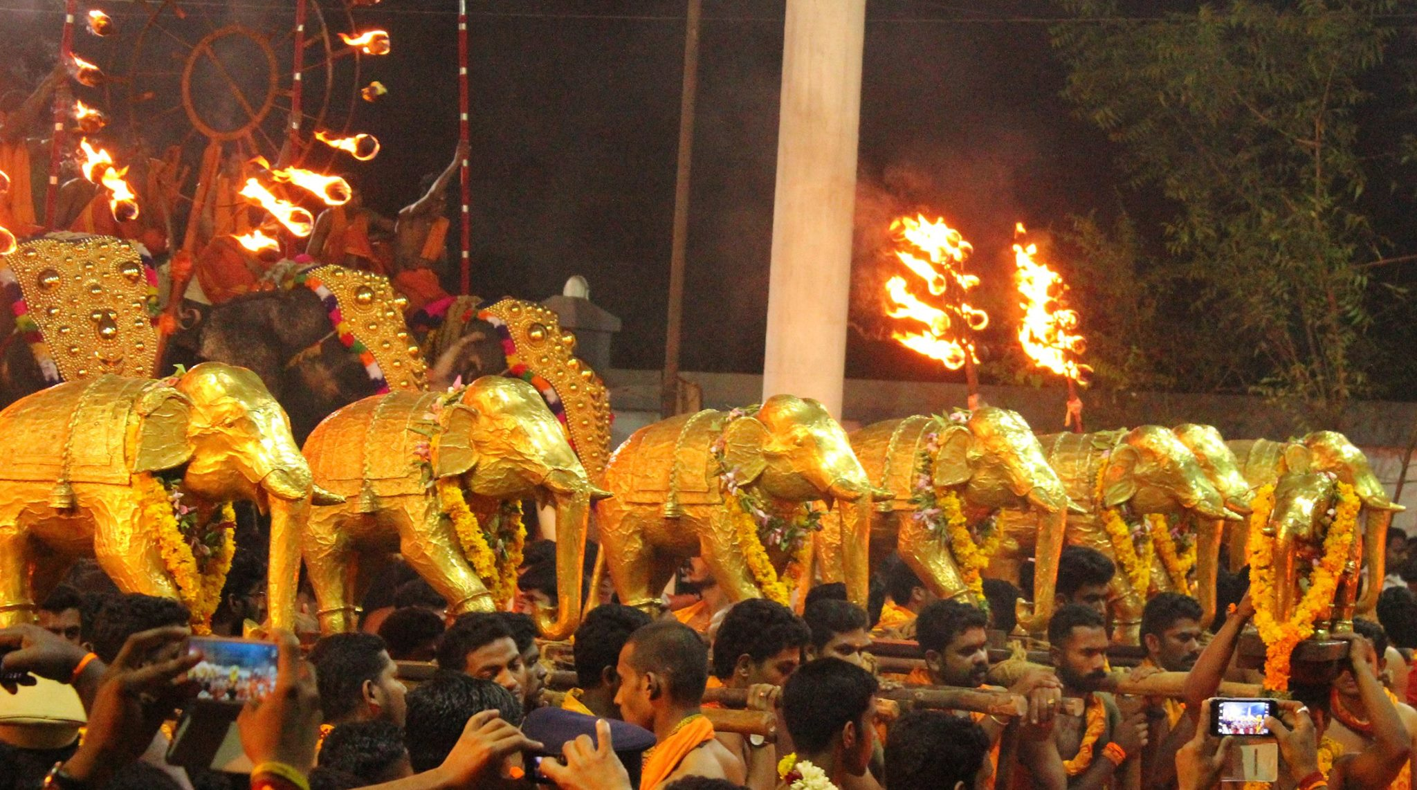 Ettumanoor Temple Ezharaponnana Ezhunnallathu